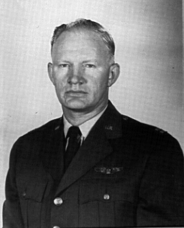 Photo of Capt. Gary L. Herod, Texas Air National Guard